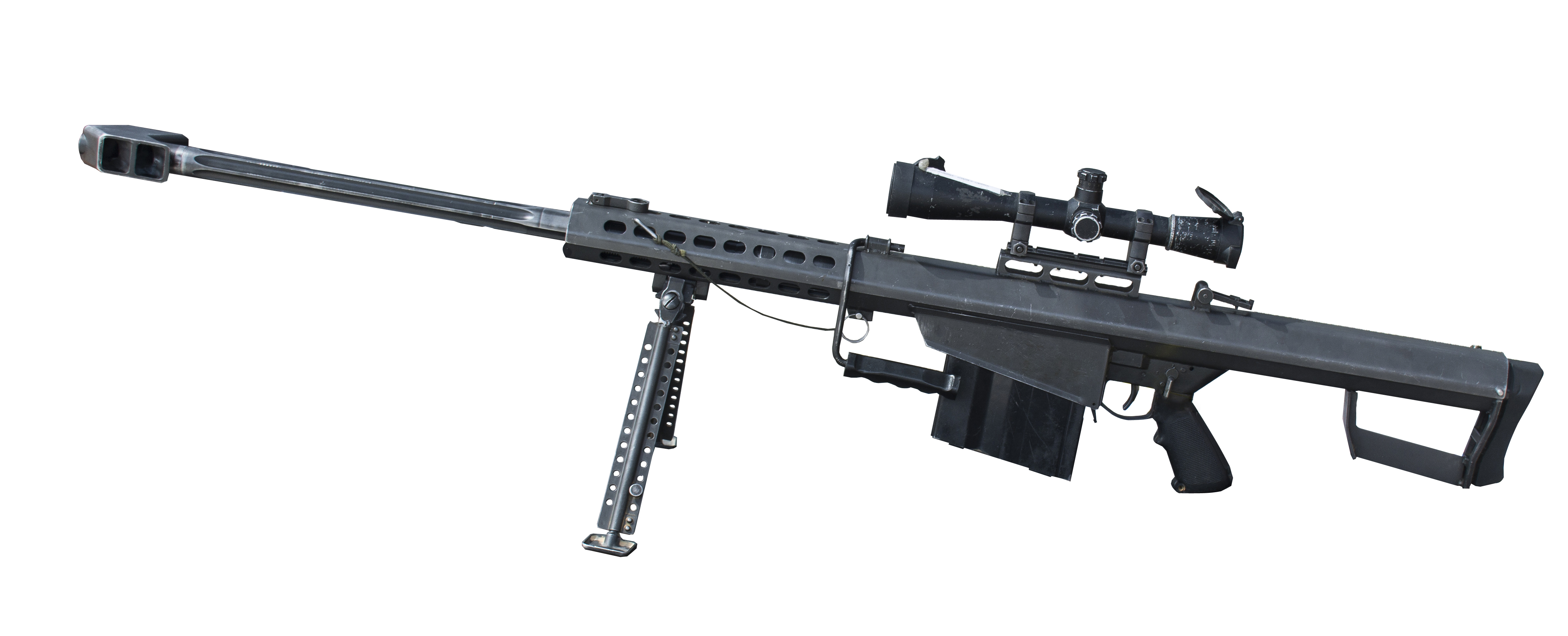 Barrett M82A1 heavy and anti-material sniper rifle, in service with the Israel Defense Forces Combat Engineering Corps